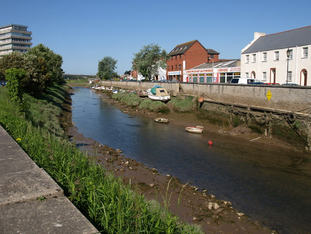 River Yeo, Barnstaple The last, tidal, reach of the Yeo before it joins the Taw just past the Civic Centre on the left. On the far side is Rolle's Quay.